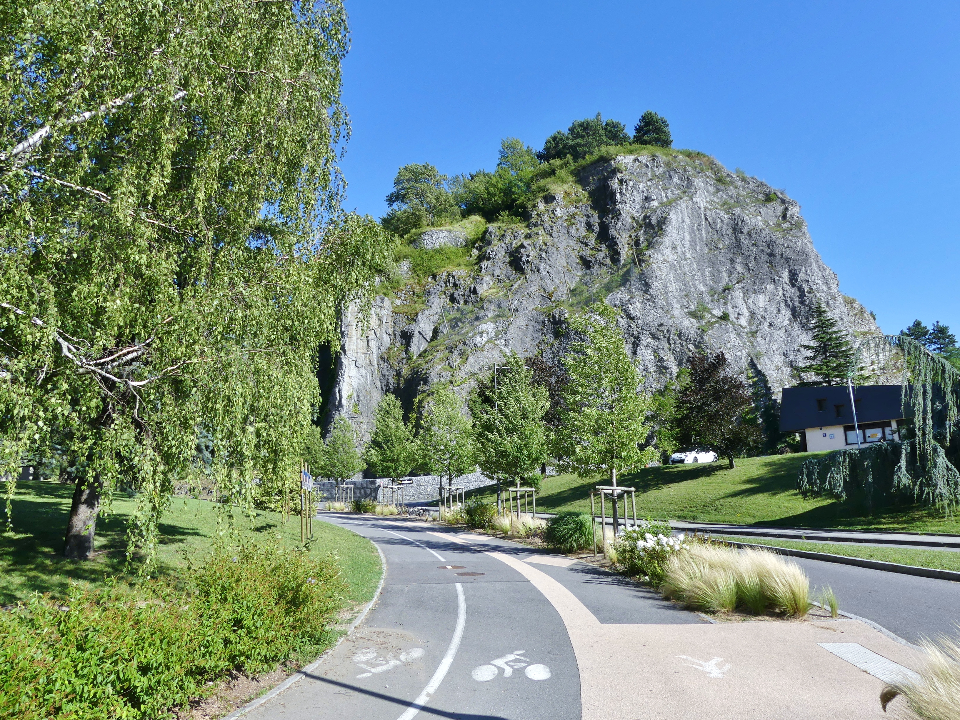 Sight of the main bikeway crossing Montmélian and passing along the Rocher de Montmélian mountain, near Chambéry in Savoie, France.